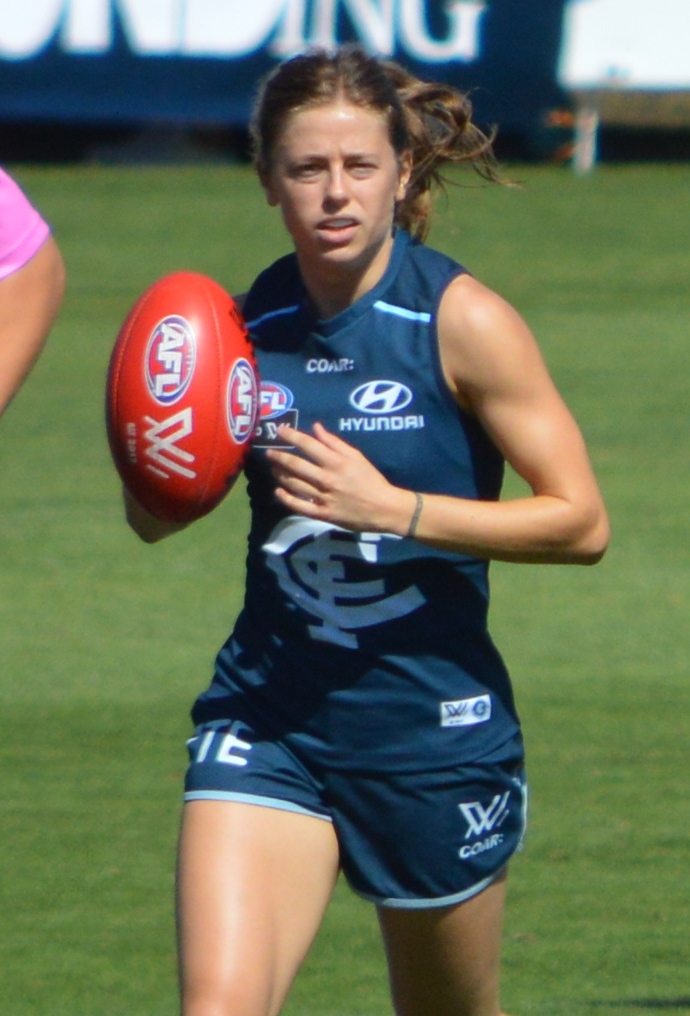 Nat Exon in Round 5 of the 2017 AFLW season